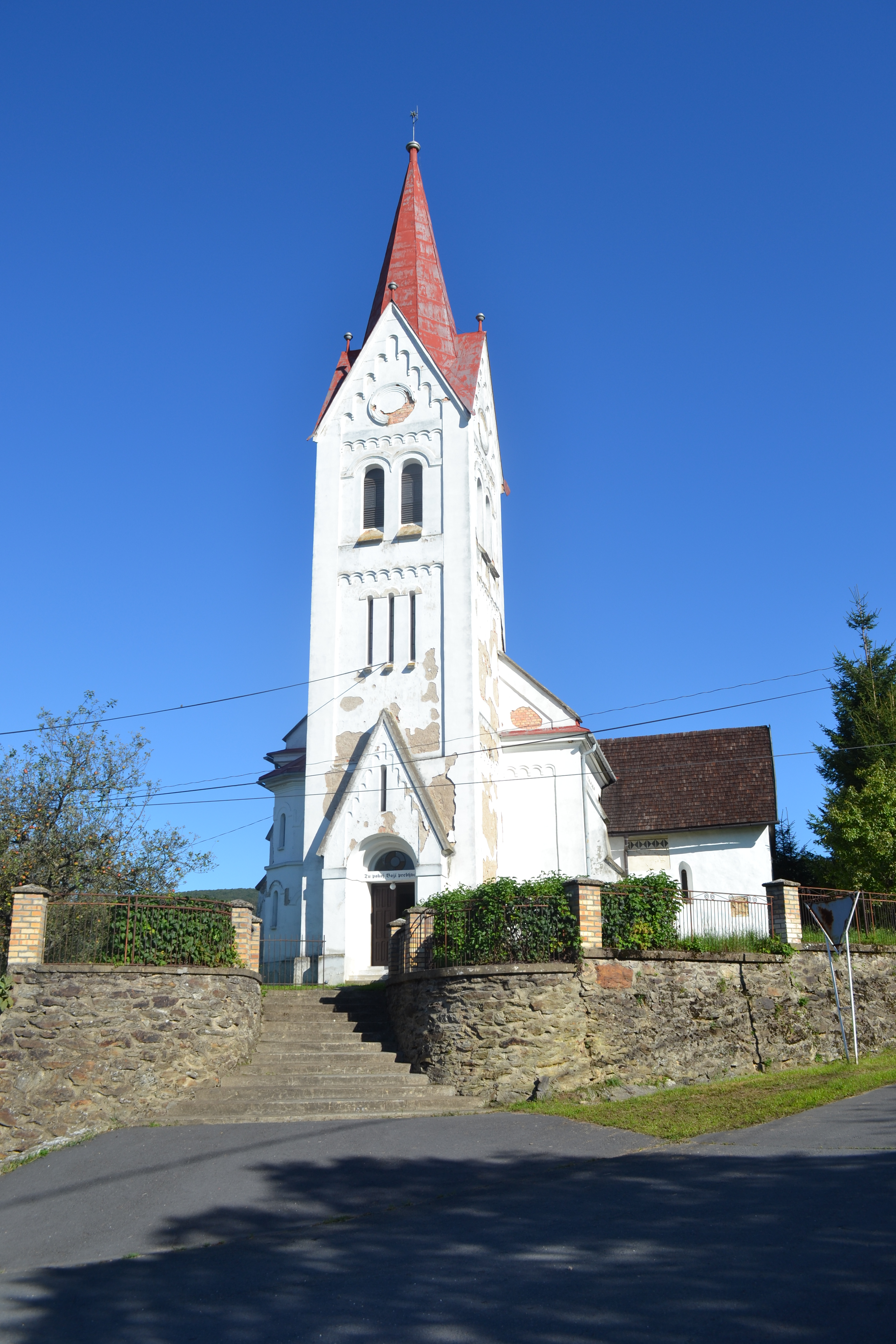 Lutheran church in the village TuričkySlovenčina: Evanjelický kostol v Turičkách Object location48° 27′ 04.07″ N, 19° 40′ 12.5″ E